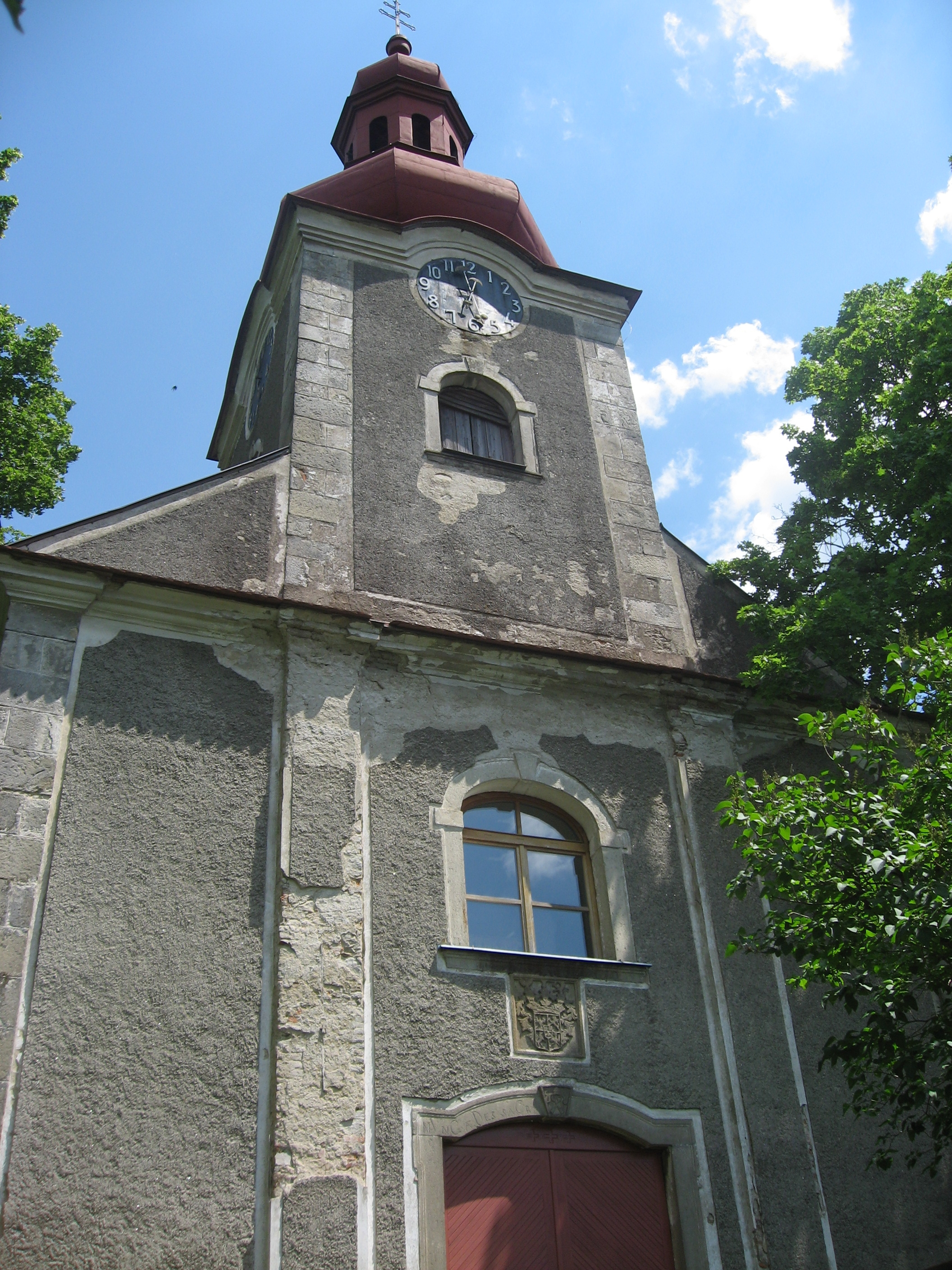 Church of SS Peter and Paul in Úsobí